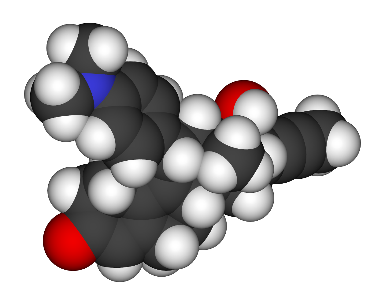 Mifepristone